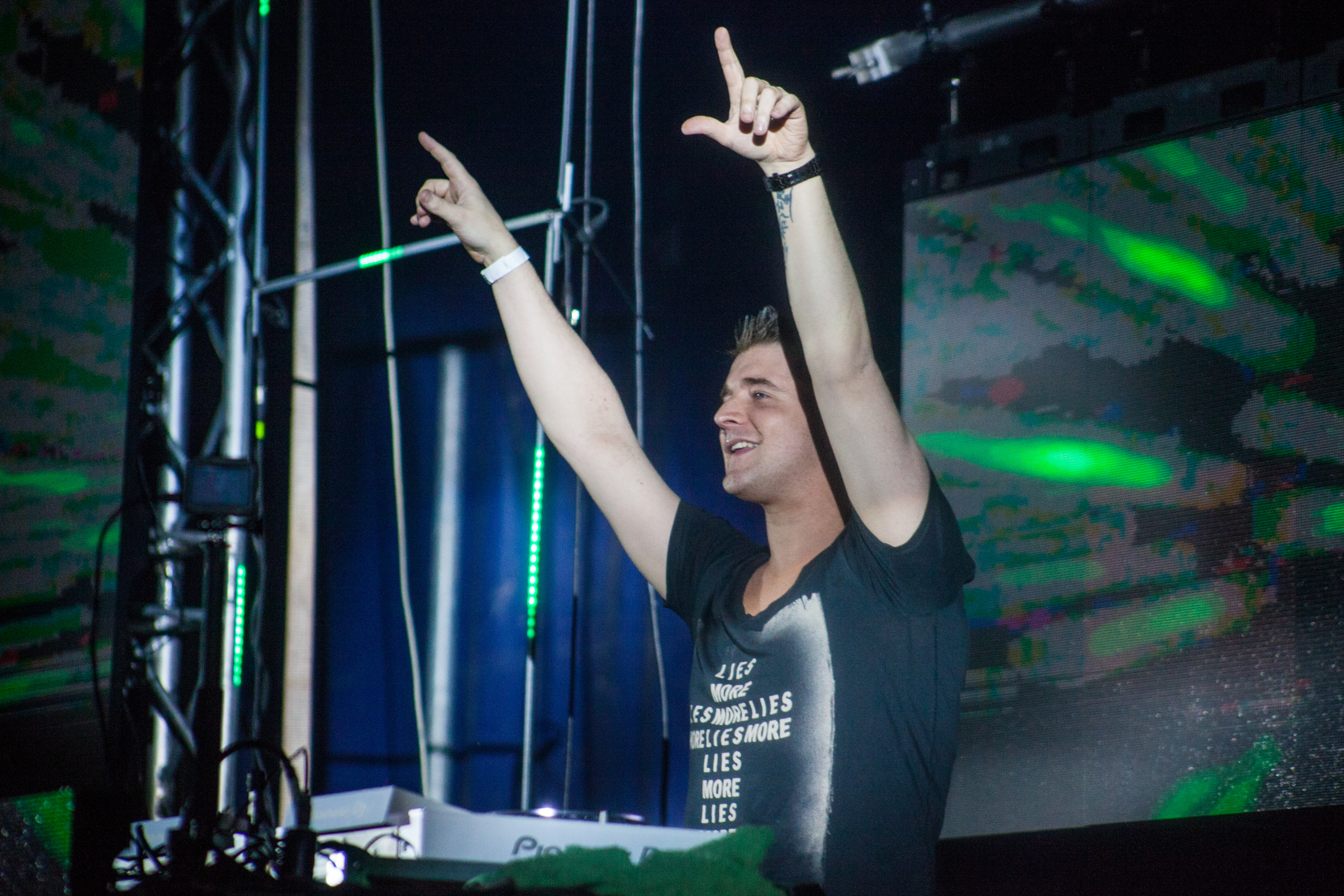 Ashley Wallbridge, English producer and DJ performing on stage at festival Beats for Love (Ostrava, Czechia) on 5 July 2019